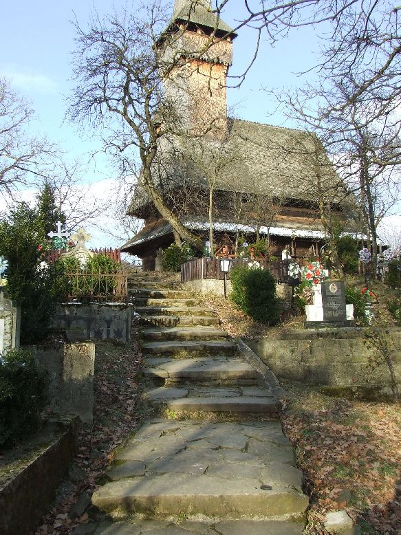 Wooden Church in Deseşti, Maramureş County, Romania